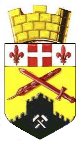 medium coat of arms of the city and municipality of Despotovac in Serbia